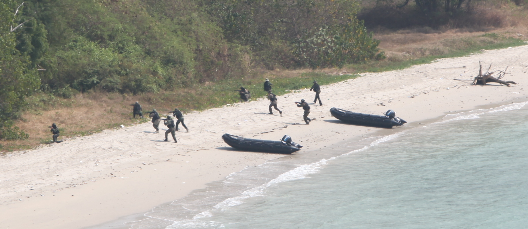 Thailand -- Royal Thai Navy SEALs storm the beach via combat rubber raiding crafts and secure the area during a mock amphibious assault, Feb. 10. Royal Thai forces worked along side marines and sailors from the 31st Marine Expeditionary Unit, 3rd Marine Expeditionary Brigade, in support of Cobra Gold 2011. Cobra Gold 2011 is a multinational training exercise aimed at maintaining regional peace and security.